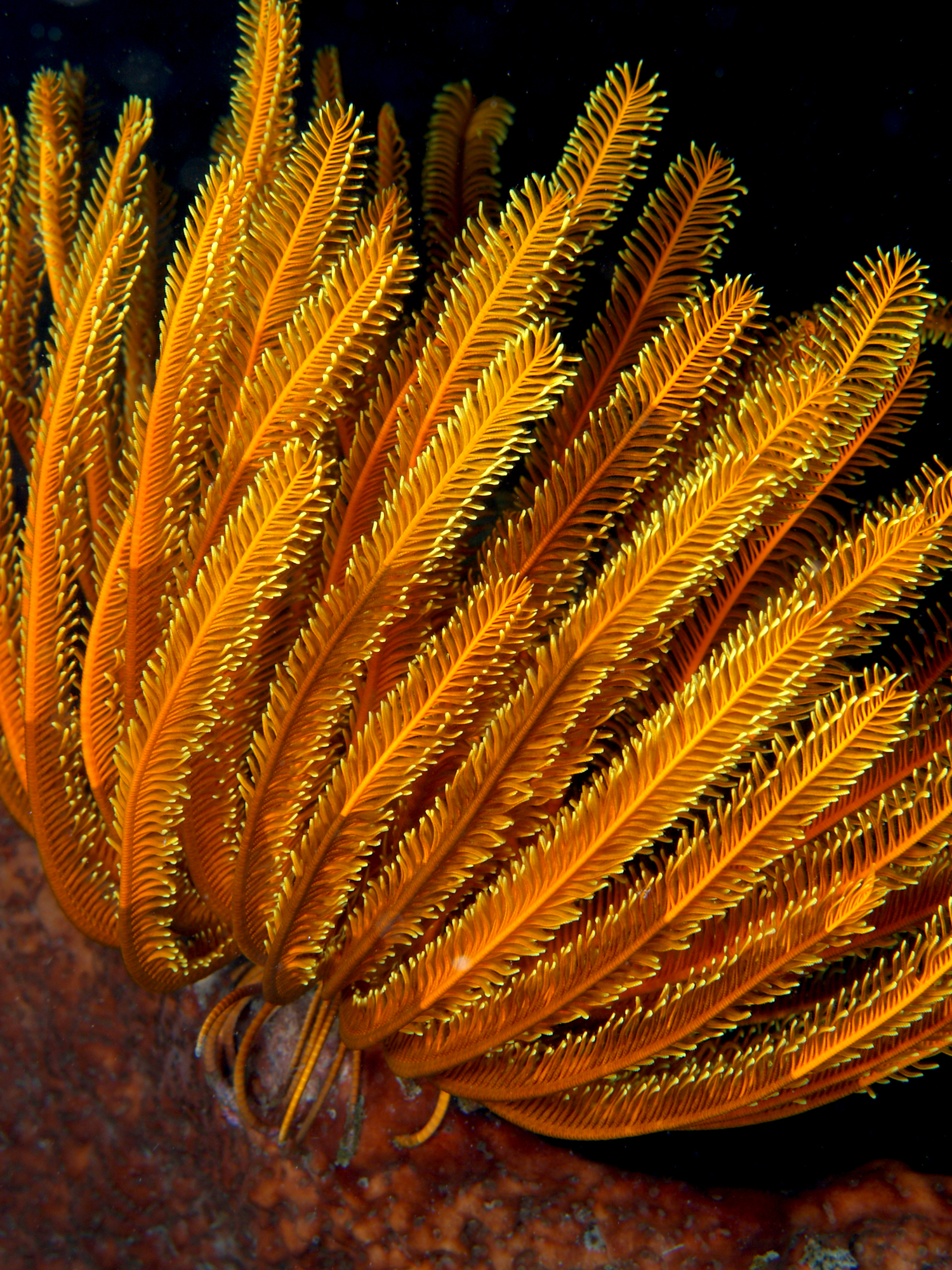 Anneissia bennetti (Feather star)